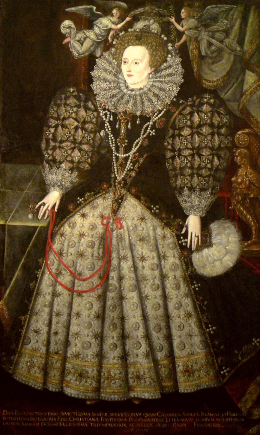 Portrait of Elizabeth I of England (1533-1603)